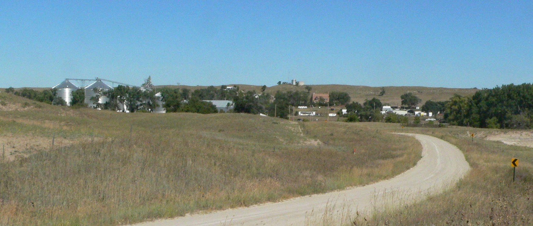 Crookston, Nebraska, seen from the south.